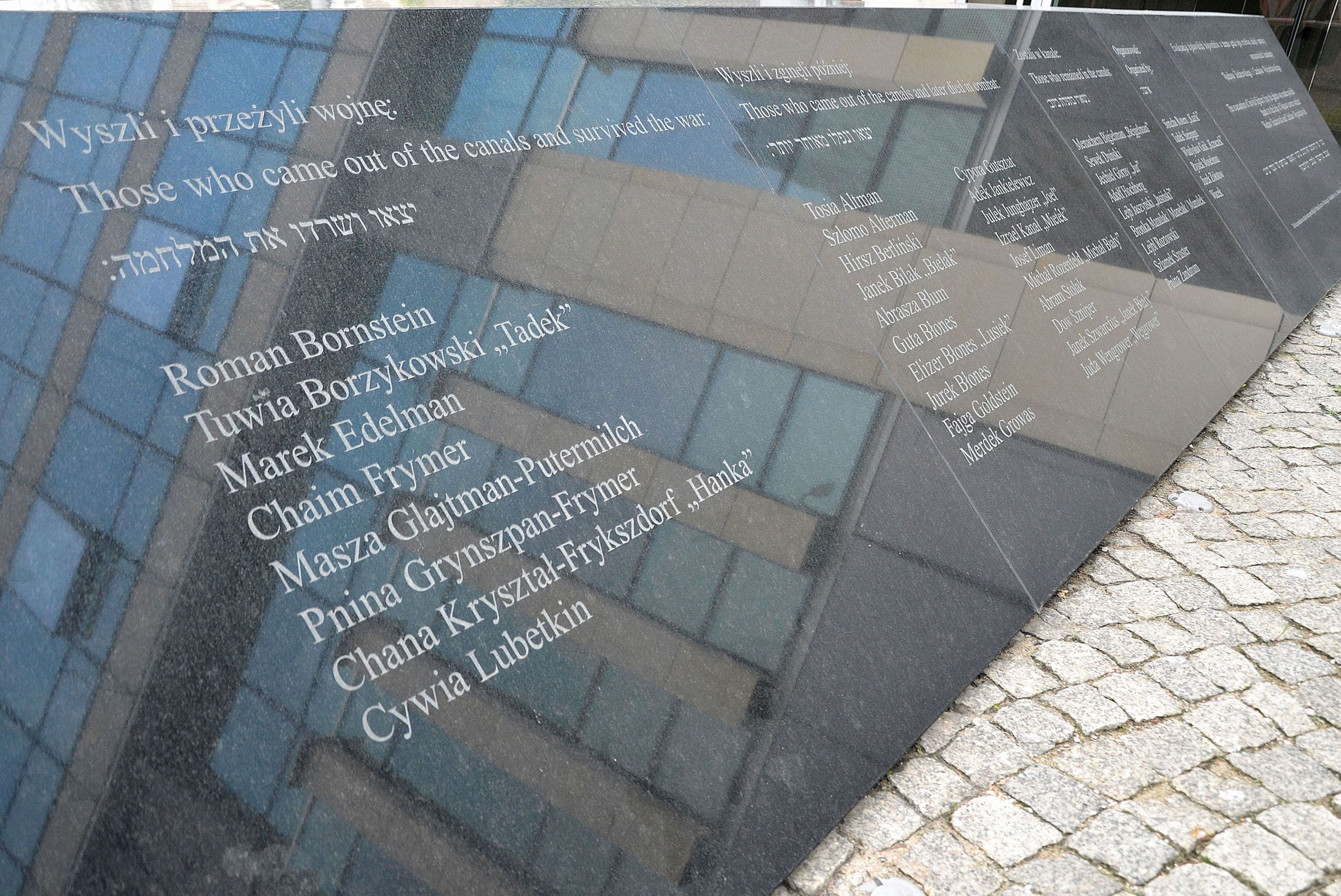 Monument to Evacuation of the Warsaw Ghetto Fighters at 51 Prosta Street in Warsaw